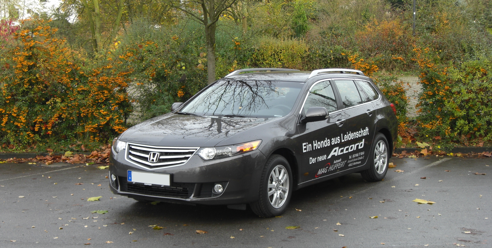 Honda Accord VI Tourer